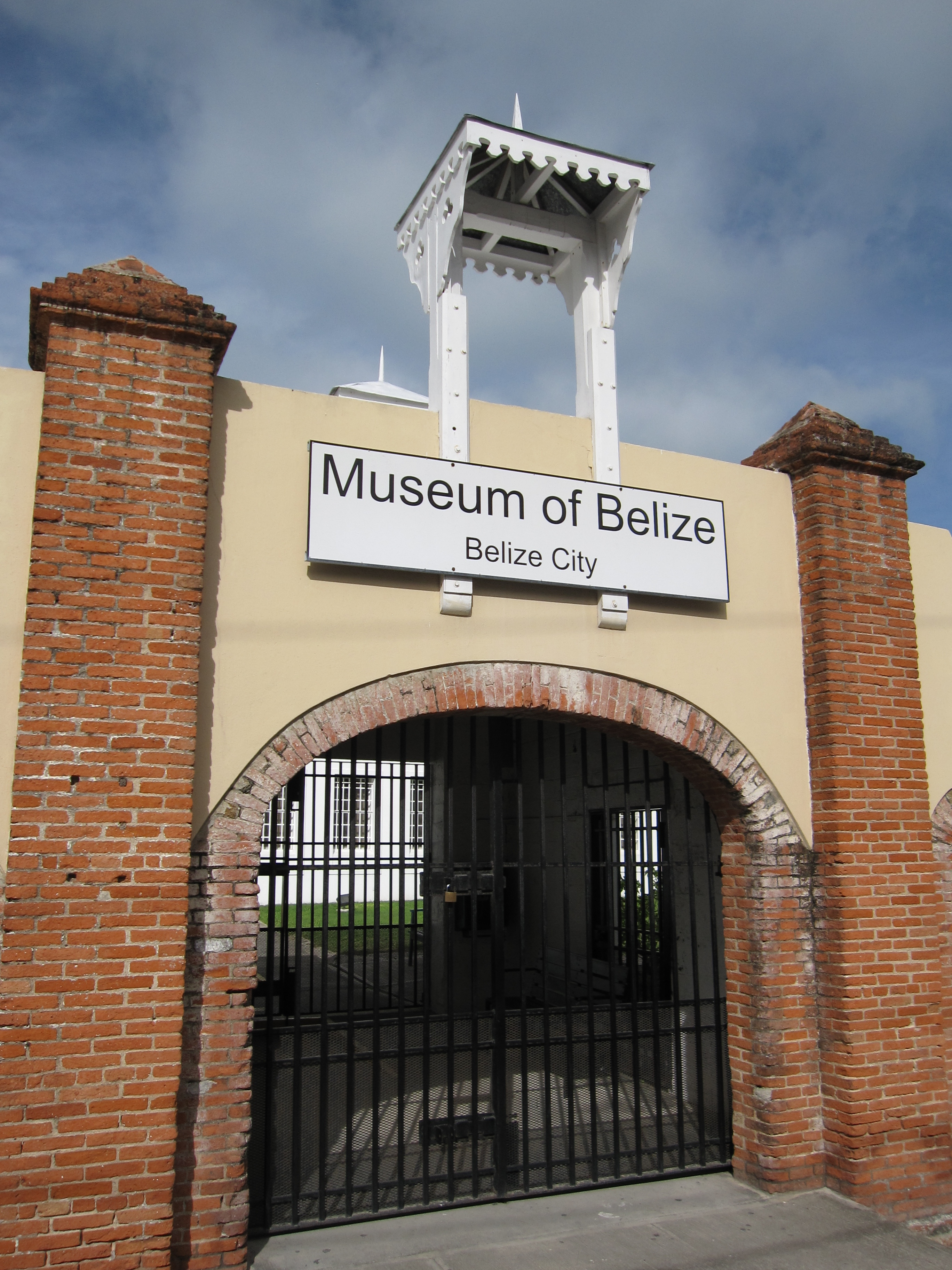 Three-centered arch portal, Museum of Belize, in Belize City; the museum was closed when I looked it up.